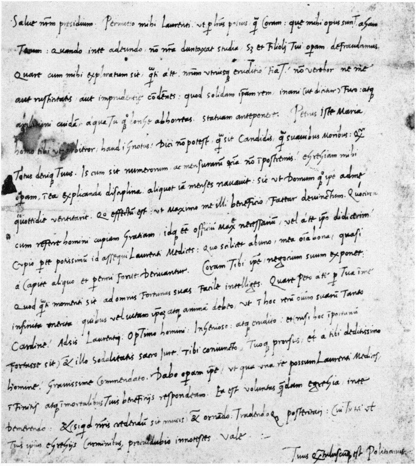 Angelo Poliziano, Letter to Lorenzo de’ Medici, autograph. Basel, University Library, Autograph Collection Geigy-Hagenbach.